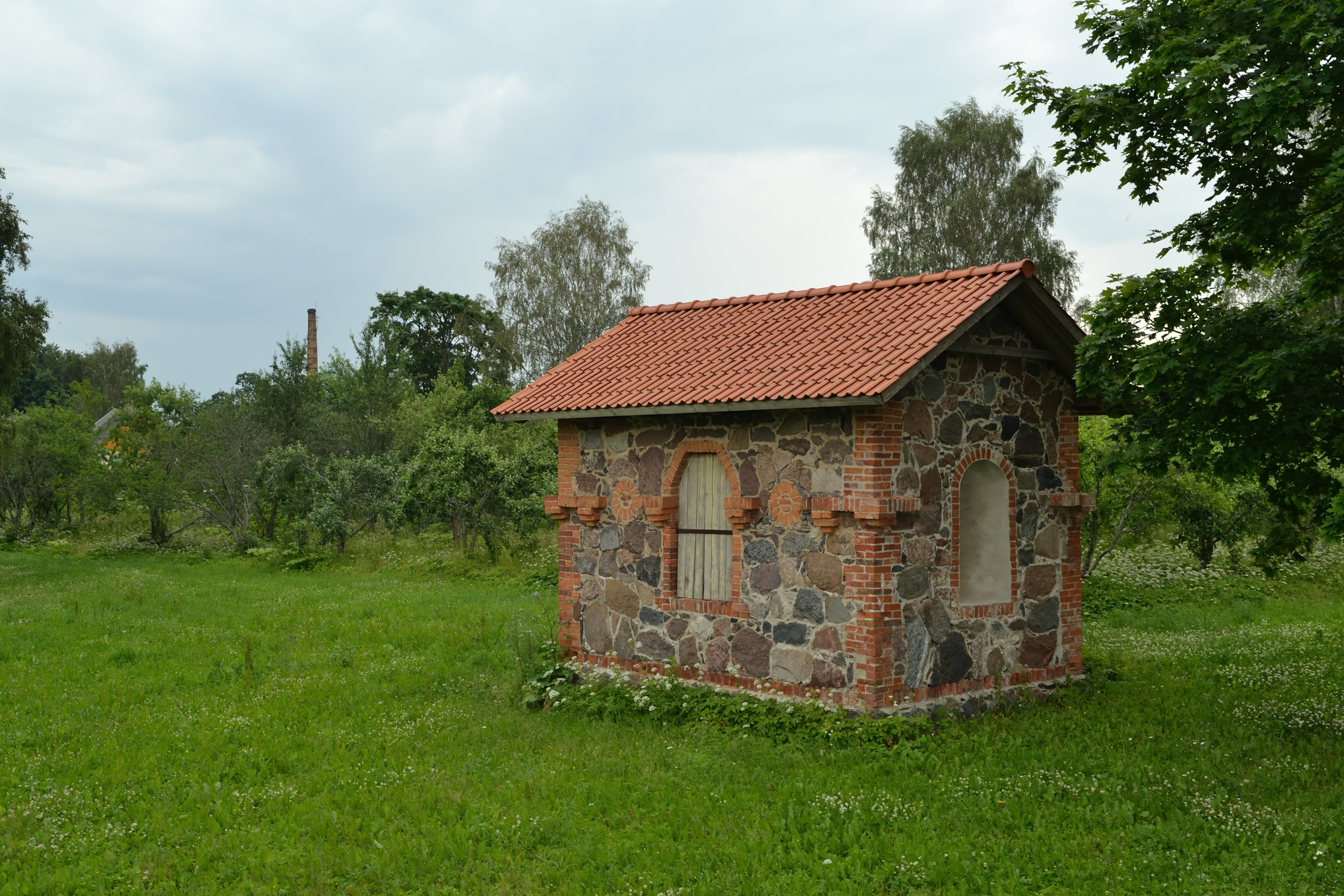 Vana-Võidu manor gardentools shed